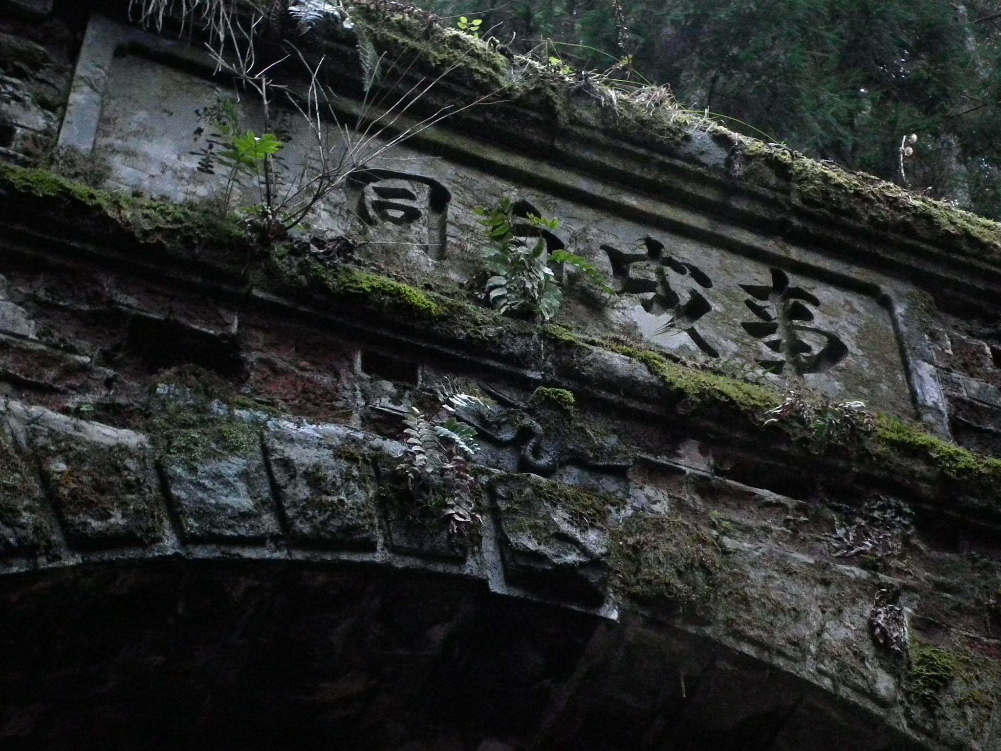 Kanegasaka-Tunnel